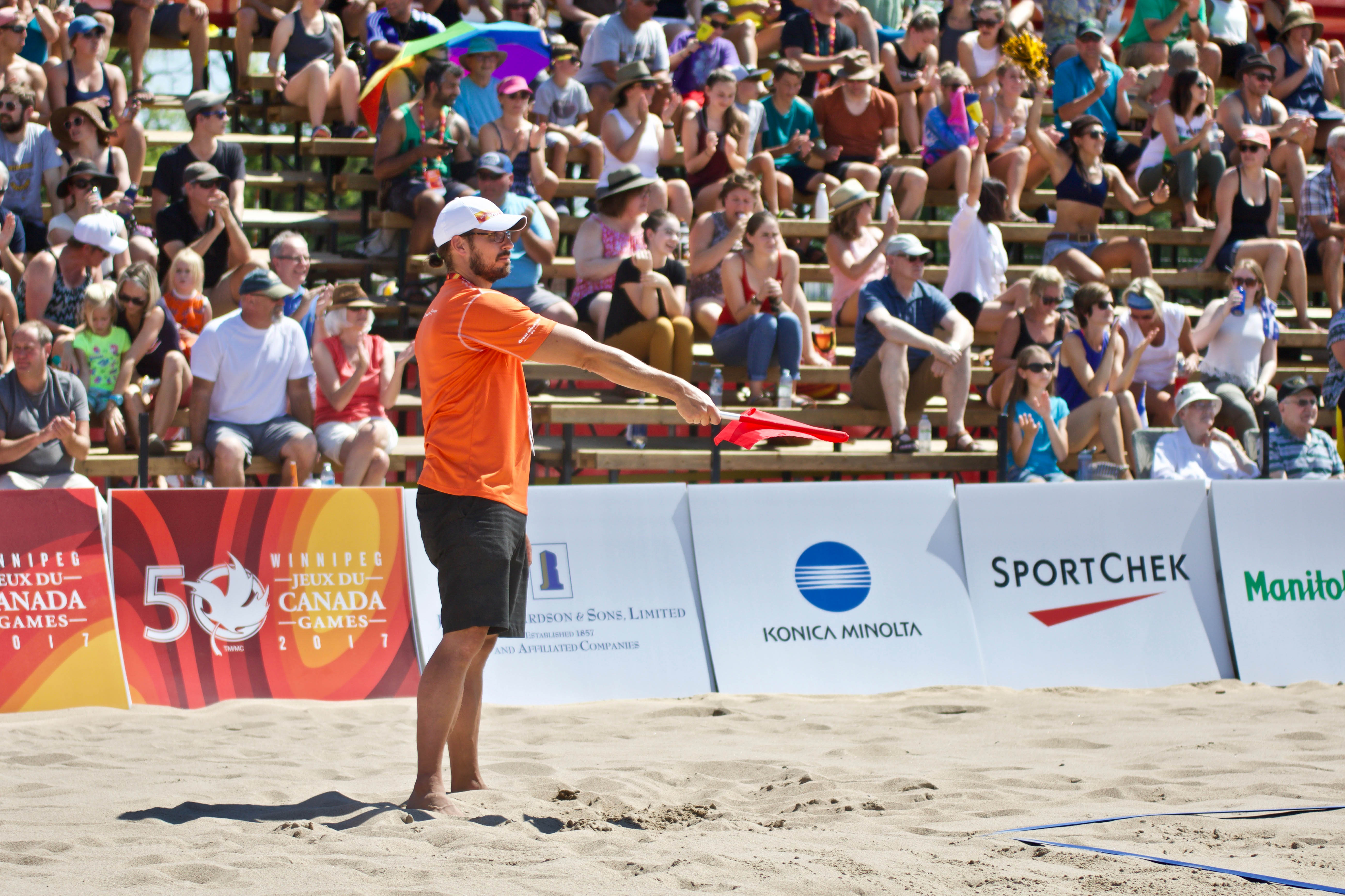 Photo by Ken Sterzuk